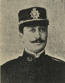 Republican member of the Portuguese 1911 Constituent Assembly.